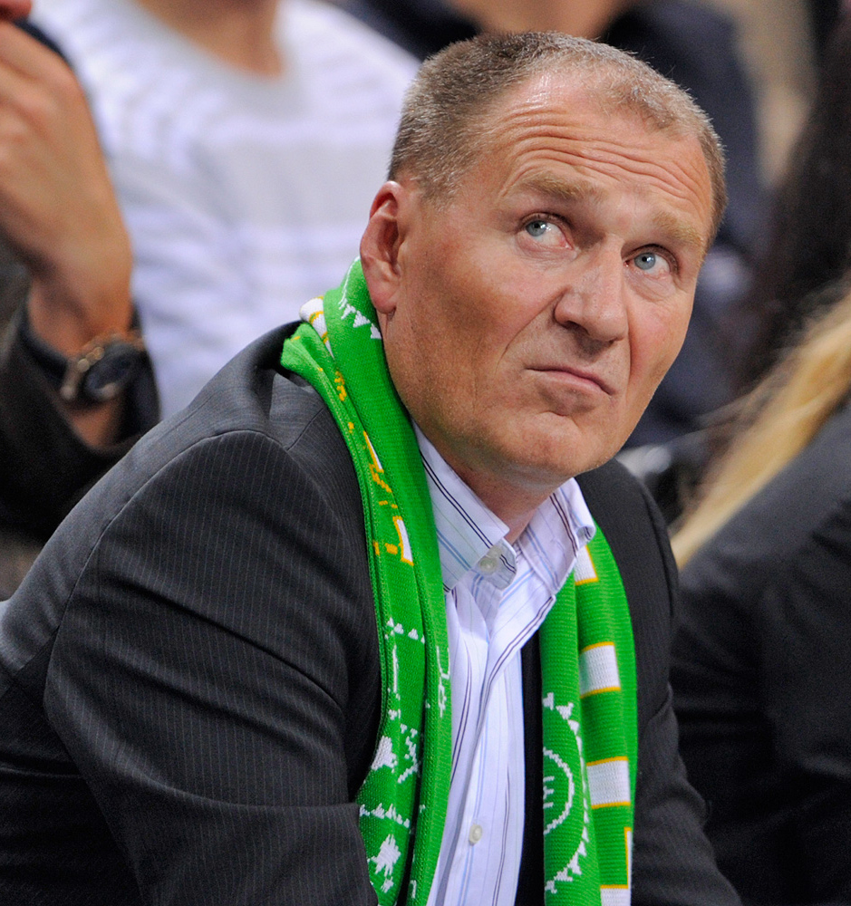 Politician Algis Čaplikas